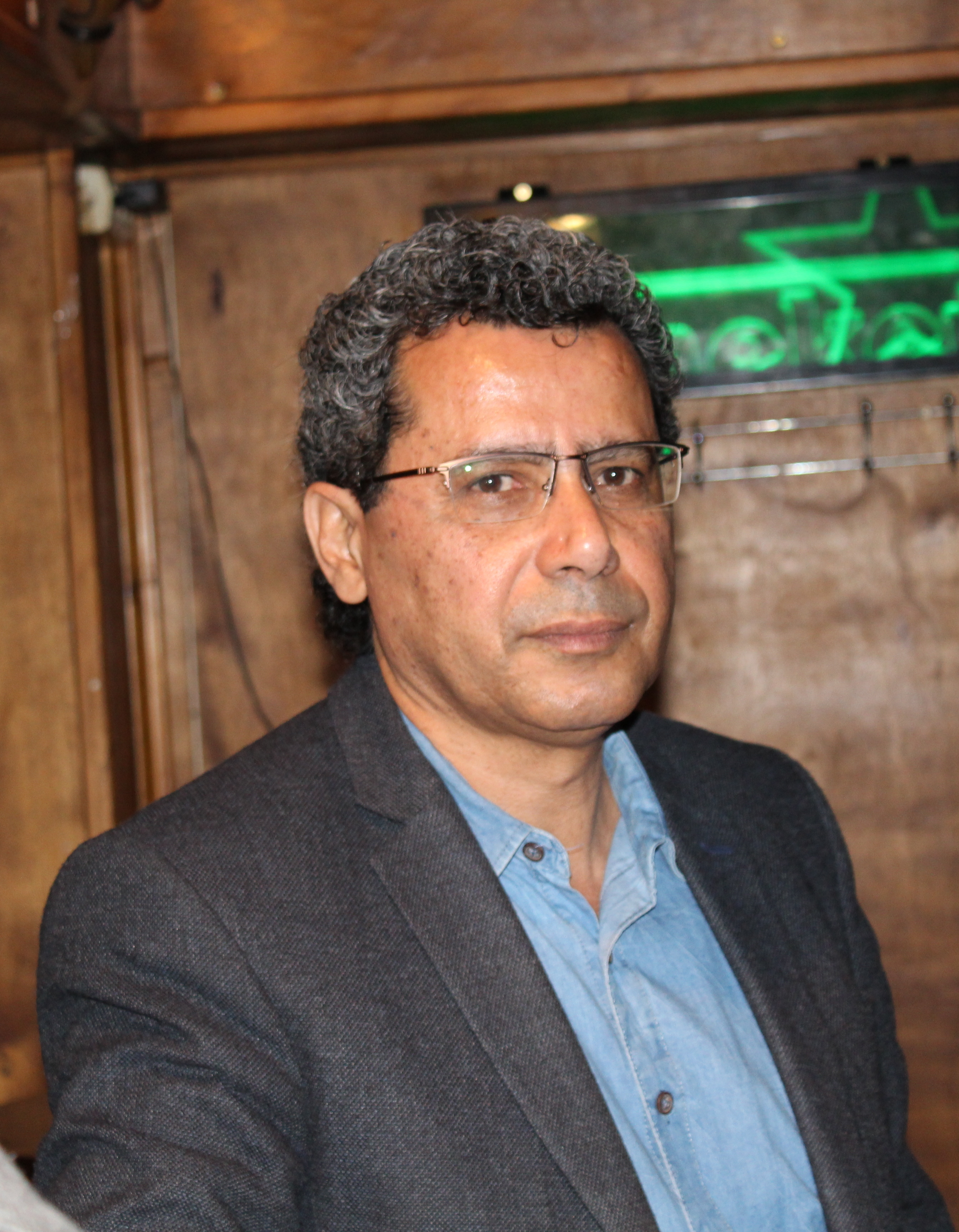 Yoav Yitzhak, Israeli journalist